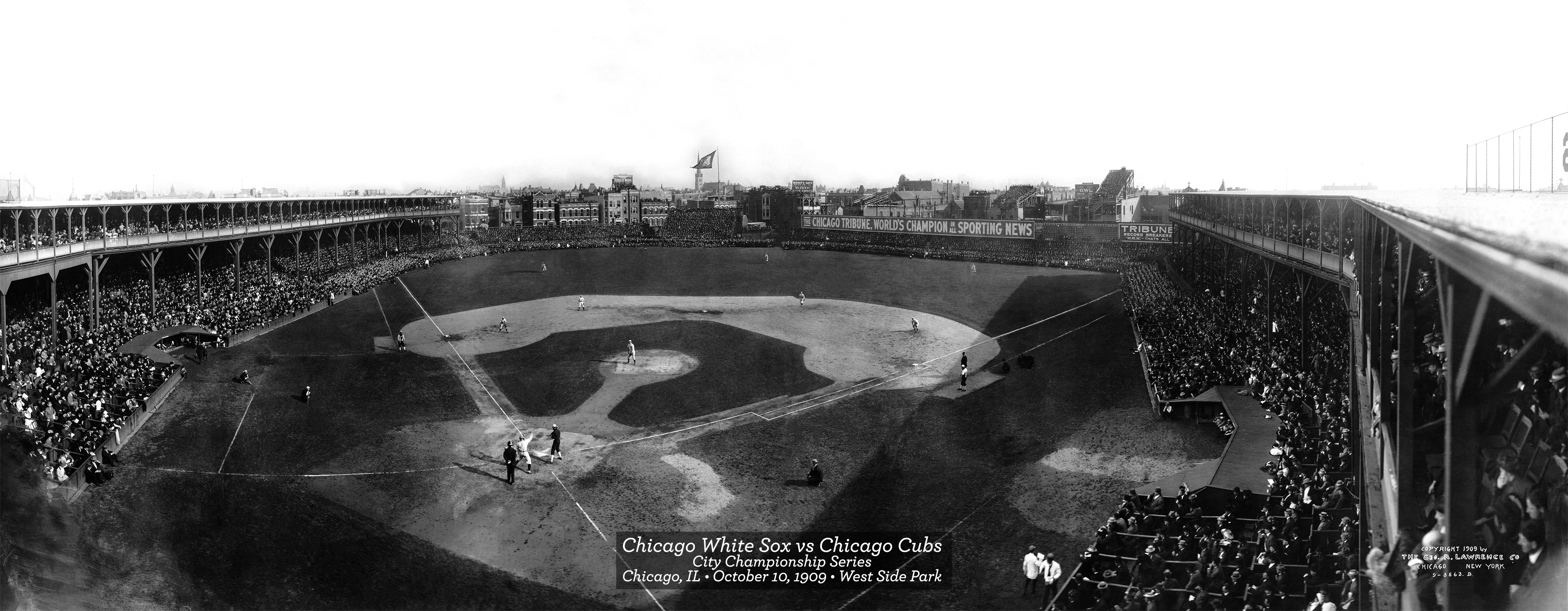 Chicago White Sox vs Chicago Cubs in the Annual City Championship. October 10, 1909 West Side Park